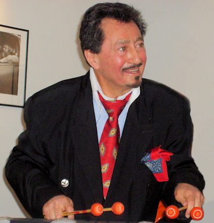 Tommy Vig on vibes in Budapest (2009)